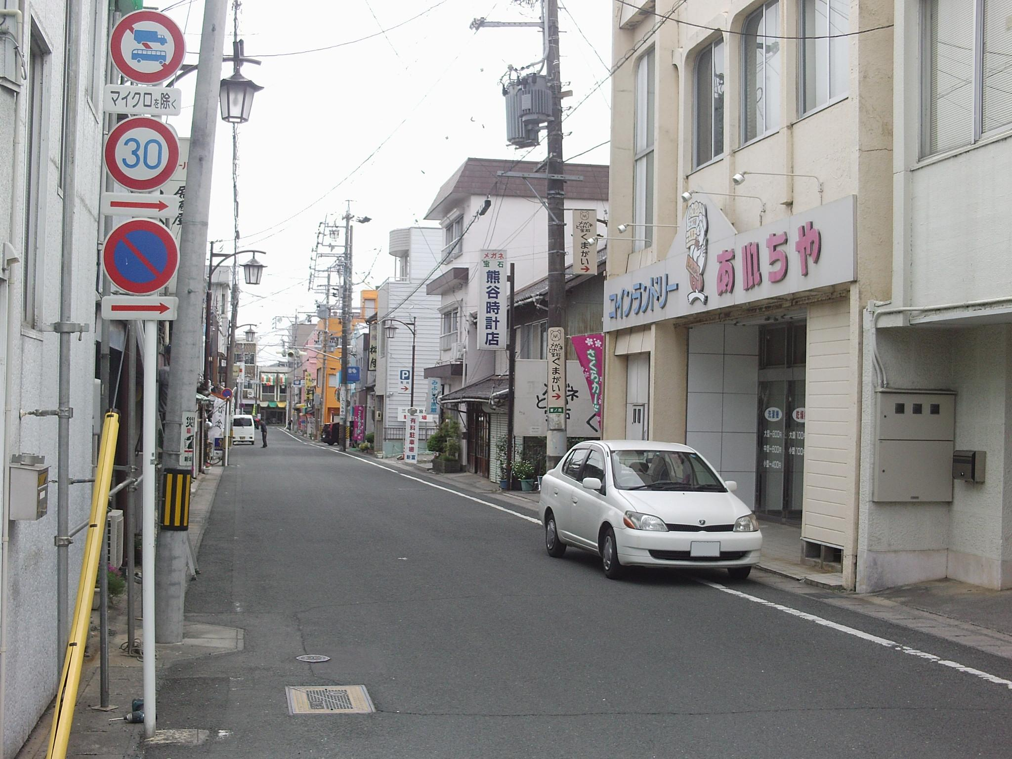 Aichi prefectural road No.446 in Miyanonishi, Shinshiro, Aichi.